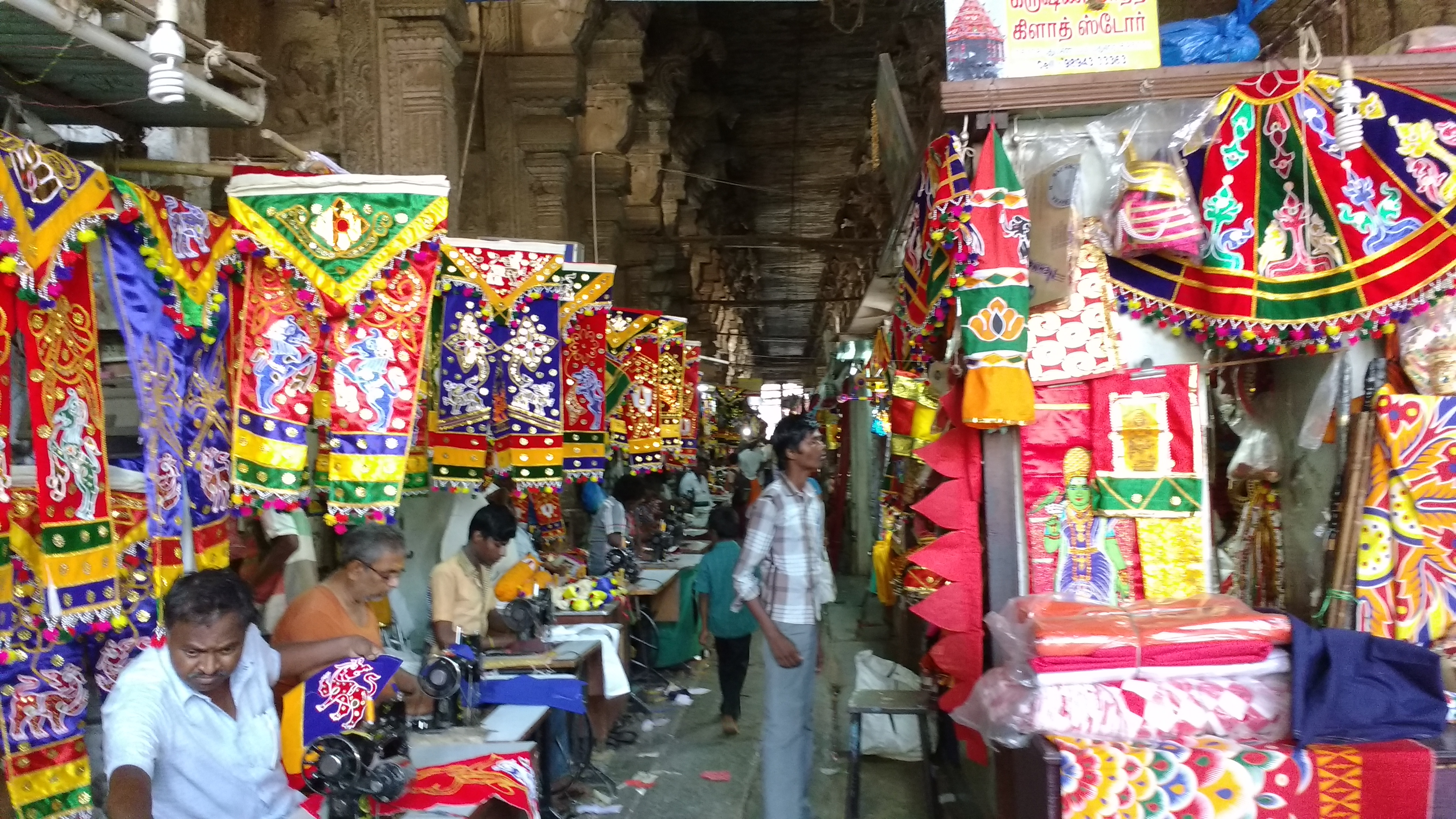 Tailoring shops in Pudumandapam